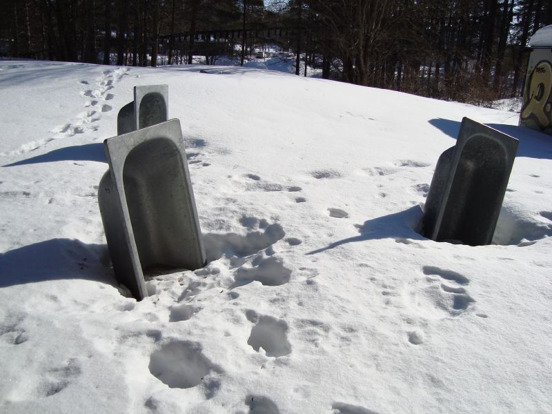 Umeå sculpture park/Sweden with Untitled (1994) by Carina Gunnars.